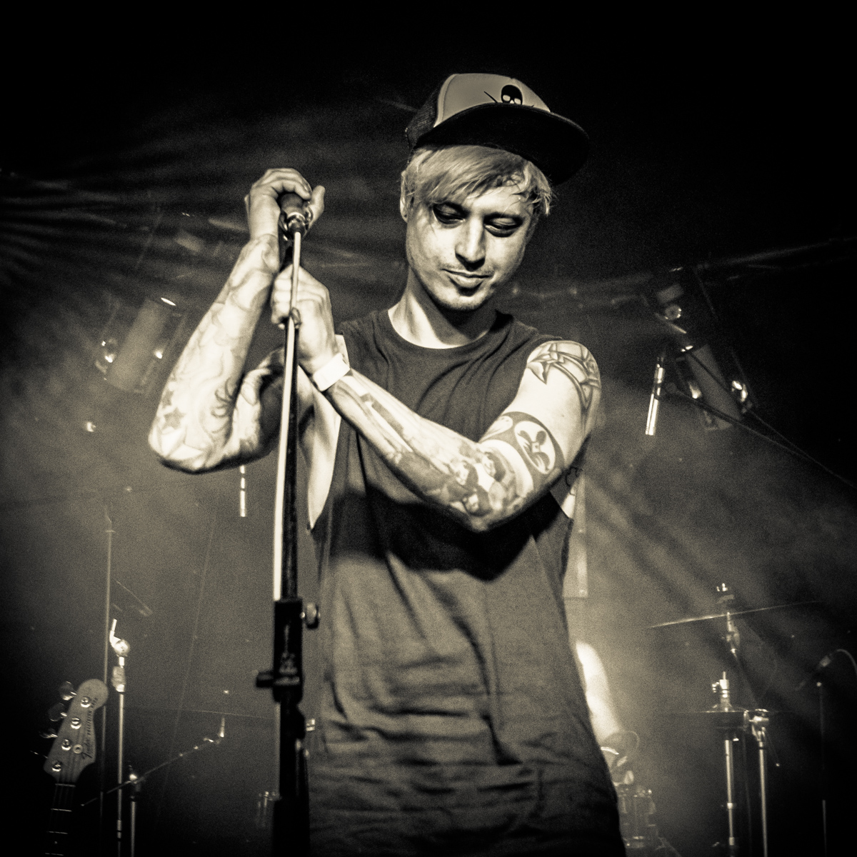 n_stravinsky_240415